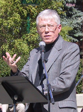 The Very Rev. Bill Phipps, Canadian church leader and social justice activist. Shown here on September 14, 2001, at an interfaith prayer vigil following the September 11, 2001, attacks on the United States. Photo by Grant Neufeld.